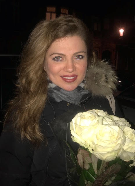 My photo of Natasha Radski in London in 2018 after show